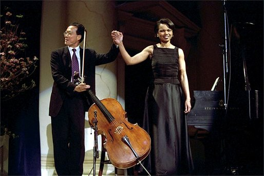 Cellist Yo-Yo Ma and National Security Advisor Dr. Condoleezza Rice take their bow after performing a duet to a Brahm's sonata at the presentation of awards by the National Endowment of the Arts and Humanities at Constitution Hall in Washington, DC , April 22.